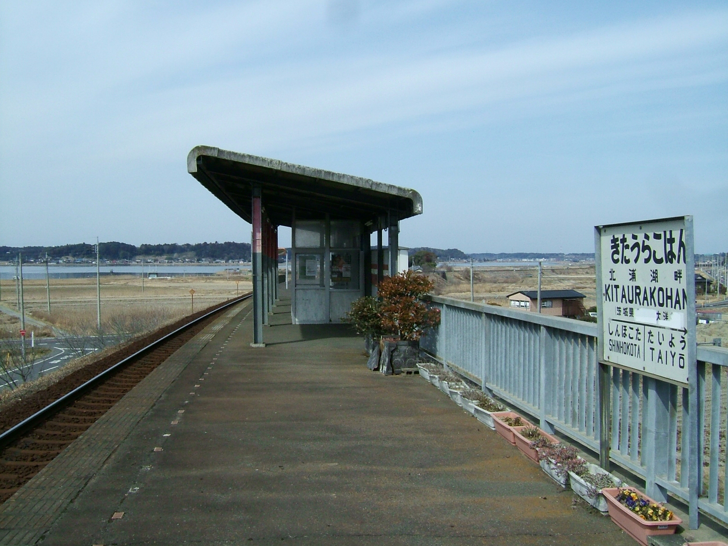 Kitaura-Kohan Station platform (Kashima Seaside Railway Oarai-Kashima Line)